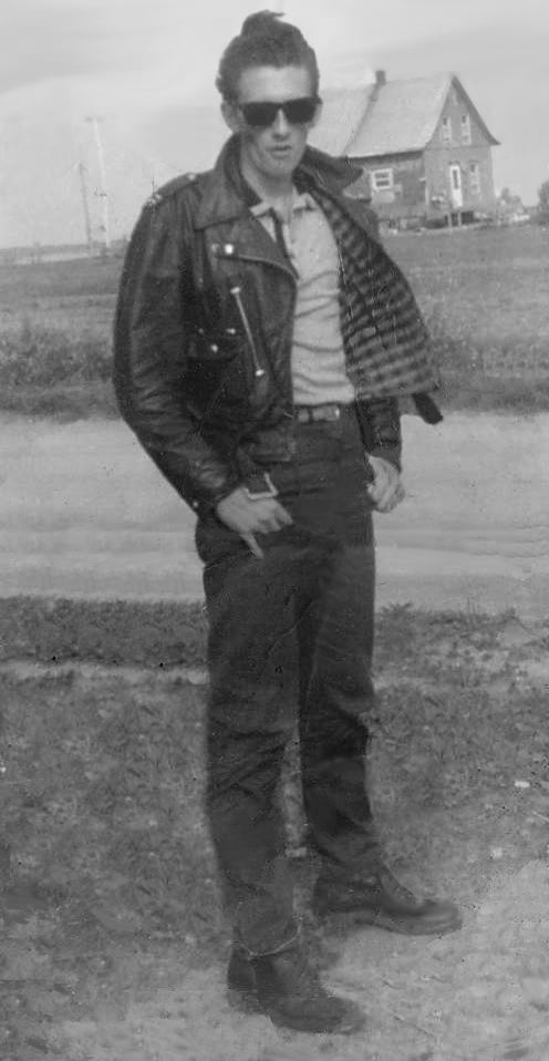 Picture of my father, Michel H Beaudoin.